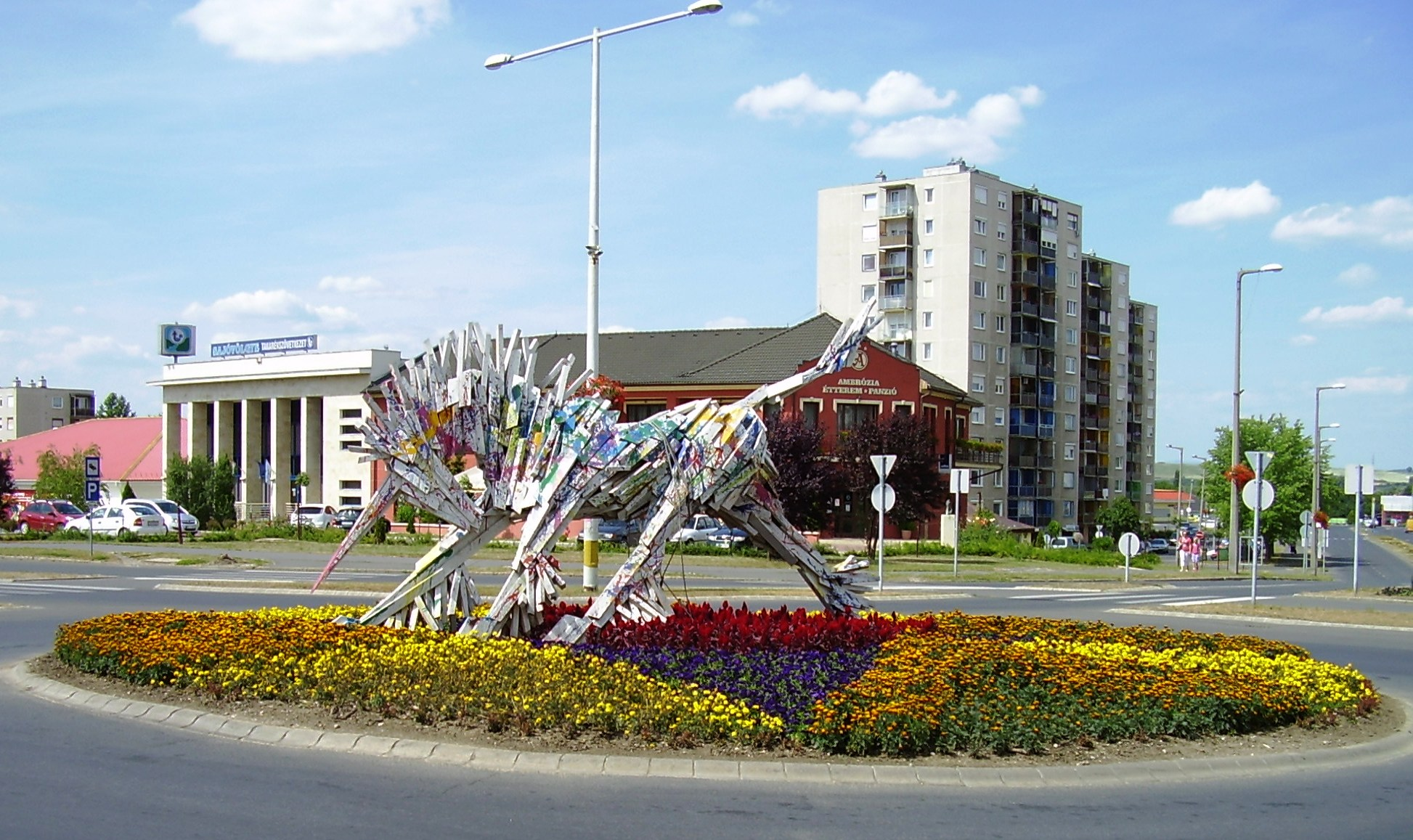 Szőke Gábor Miklós’s work named Unikornis in Kazincbarcika